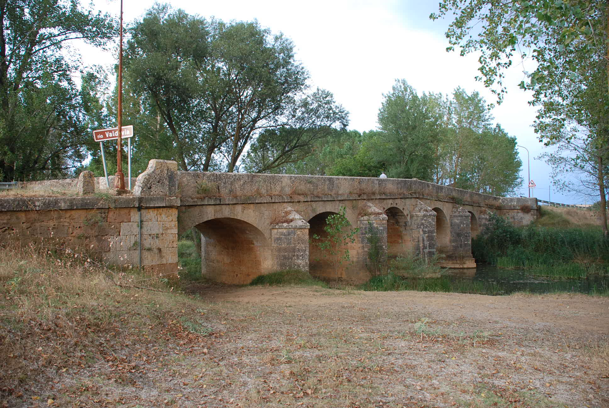 Canto Bridge. Castrillo de Villavega (Palencia, Spain). Early XIXth century.